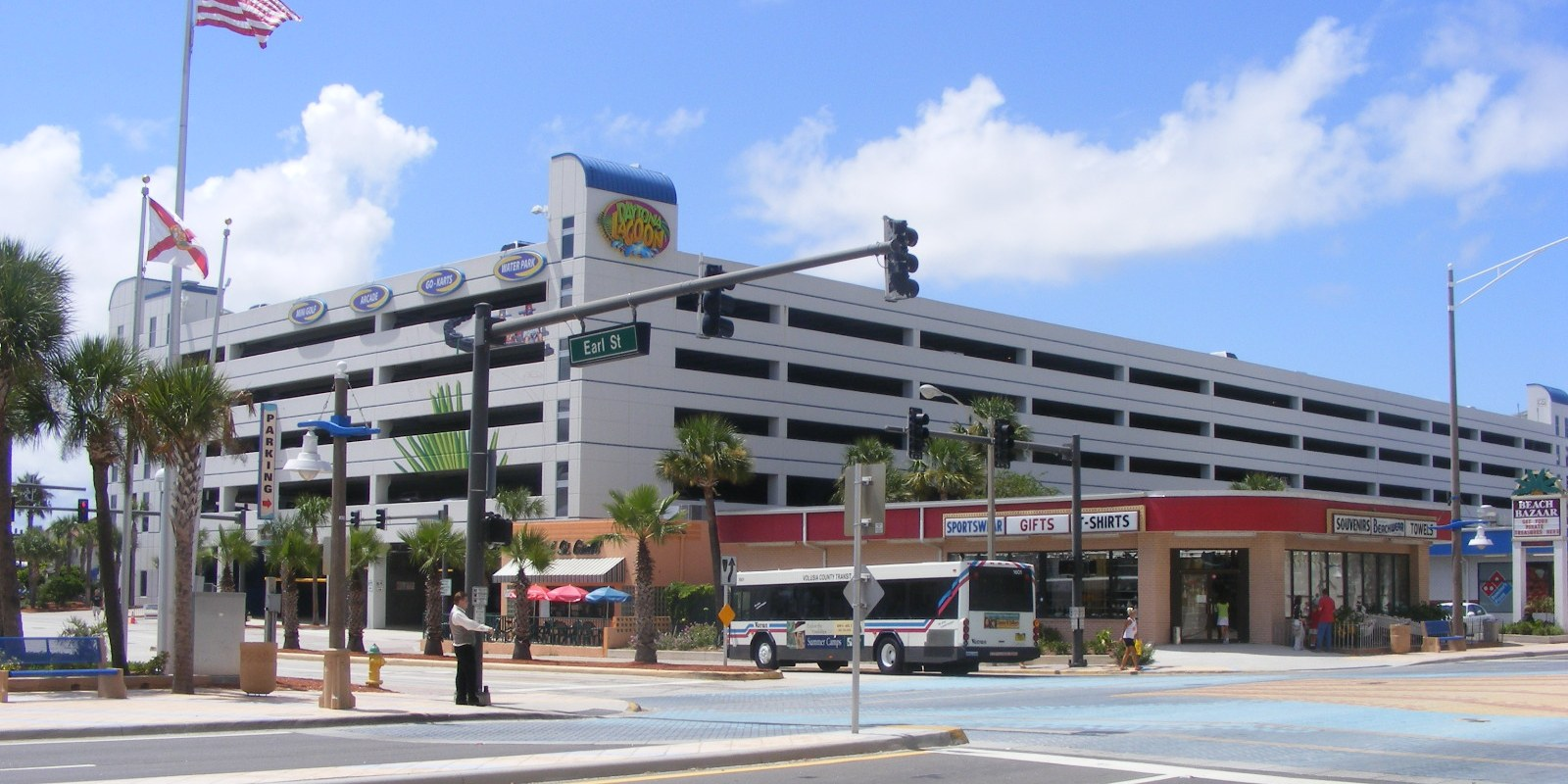 The Volusia County Parking Garage in Daytona Beach provides a place for visitors to park and walk around. There is also a VOTRAN transfer station (Intermodal Transit Facility - ITF) located inside the garage area.